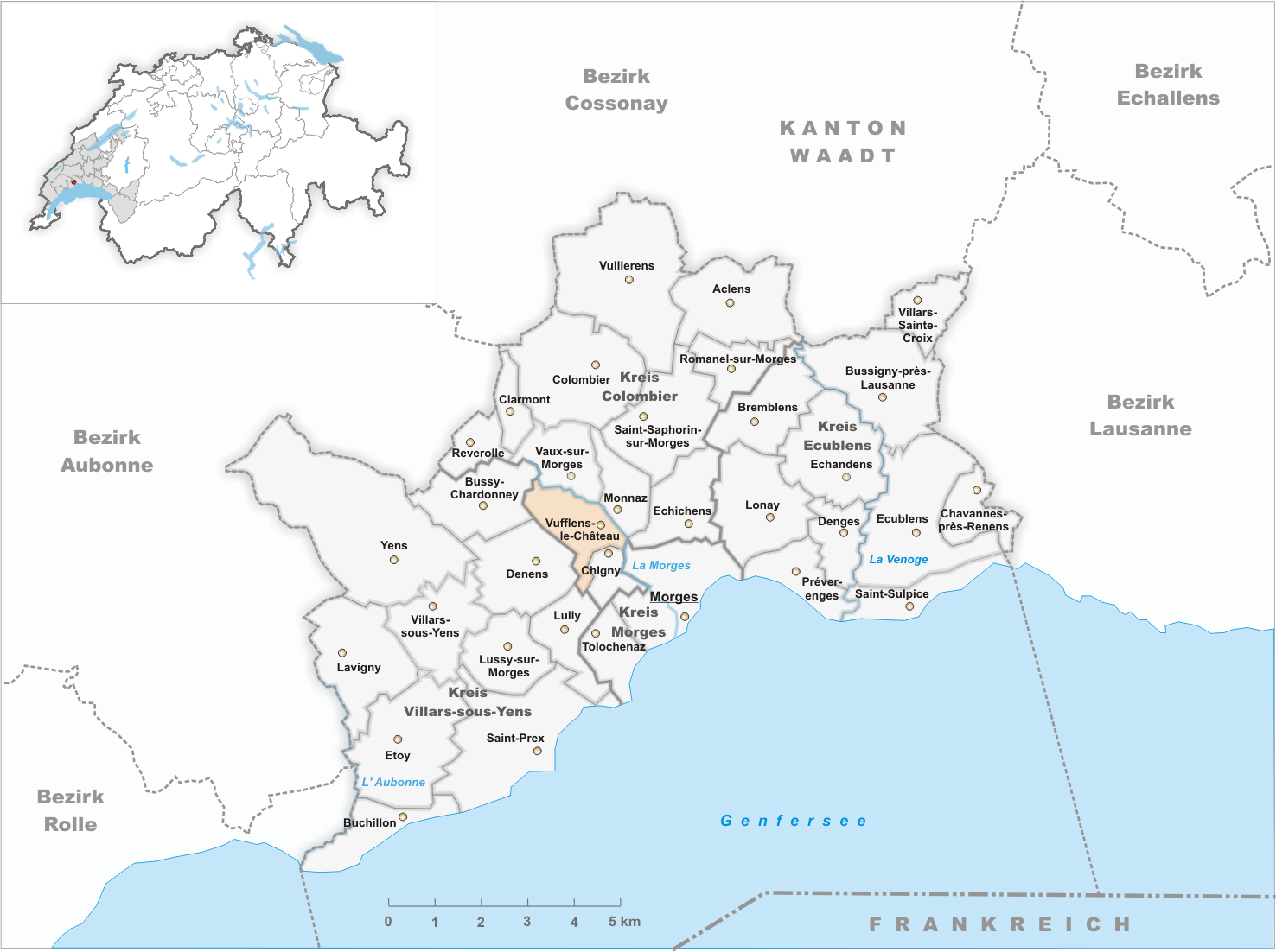 Municipality Vufflens-le-Château